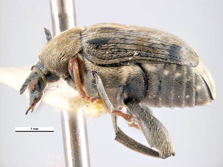 Bruchus rufimanus. Location: Italy.